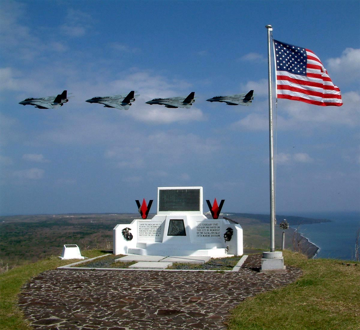 F-14 Tomcats assigned to the Black Knights of Fighter Squadron 154 (VF-154) fly by the memorial on Mt. Suribachi on Iwo Jima Island. VF-154 is part of Carrier Air Wing Five (CVW-5) embarked aboard USS Kitty Hawk (CV-63), conducting Carrier Readiness Certifications. The memorial is to the flag raising during Battle of Iwo Jima on top of Mt. Suribachi. It reads: "Among the Americans who served on Iwo Jima, uncommon valor was a common virtue." — Nimitz. Dedicated to those who fought here by the Island Command AGF. Erected by the 31st USNCB. Old Glory was raised on this site 23 February 1945 by members of the Second Battalion, 28th Regiment, Fifth Marine Division. Behind the memorial can be found a second, smaller homage: see IwoJima Homage Insignia Devices.jpg and IwoJima Homage Insignia Devices color.jpg.